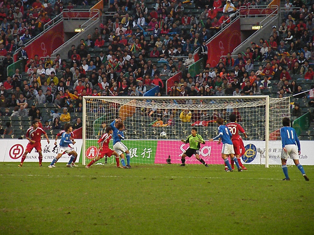 2009 East Asian Games Football Final Match - Hong Kong, China vs Japan at Hong Kong Stadium on 2009.12.12.